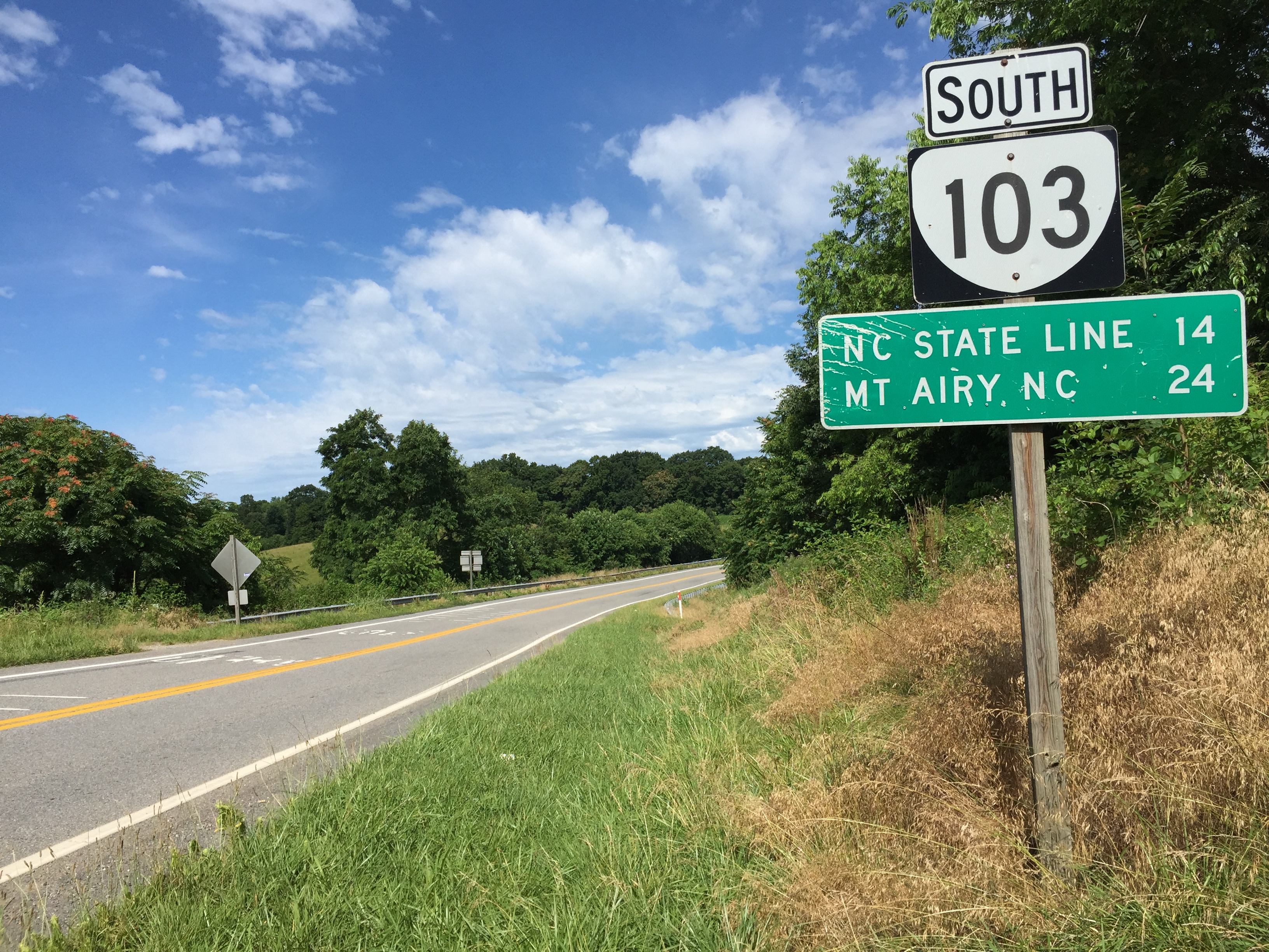 View south along Virginia State Route 103 (Dry Pond Highway) at Virginia State Route 8 (Salem Highway) in Five Forks, Patrick County, Virginia